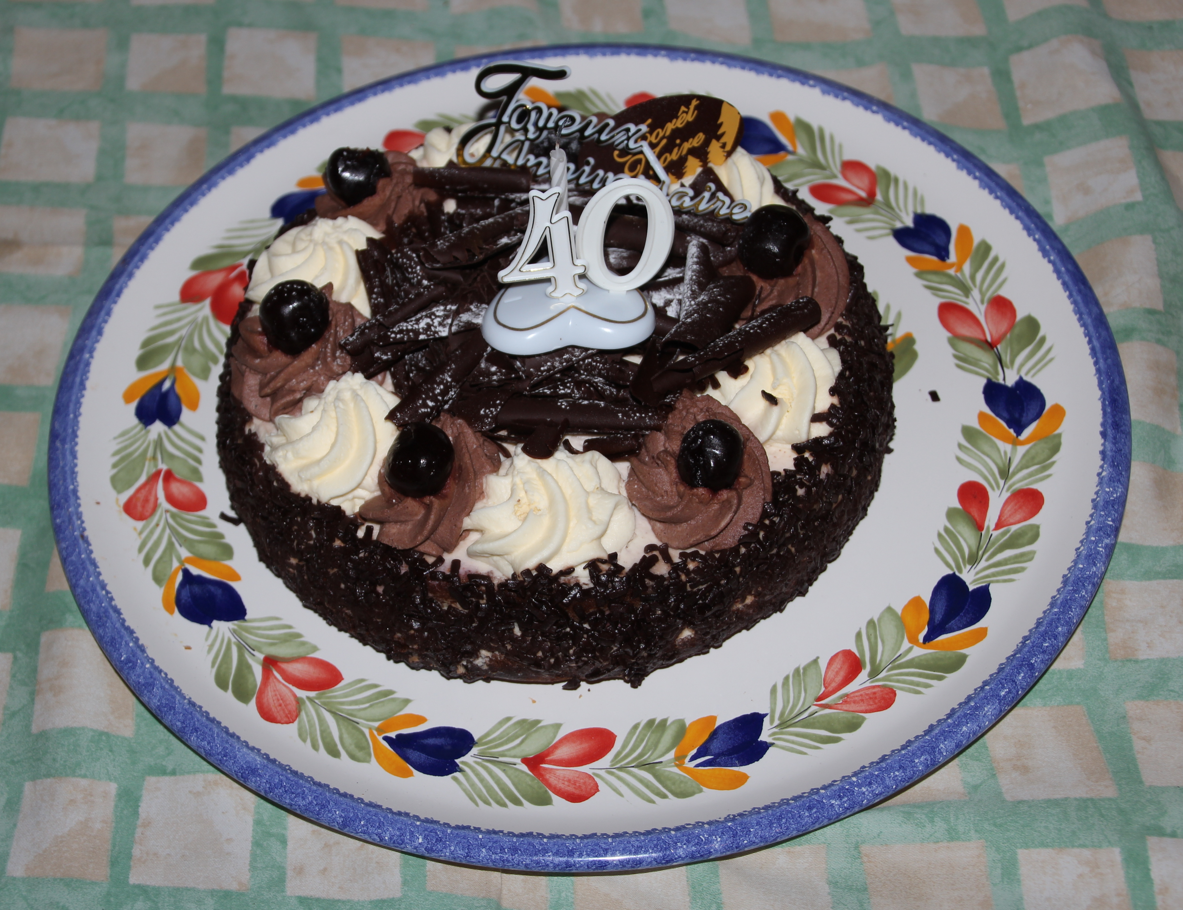 A Black Forest cake.